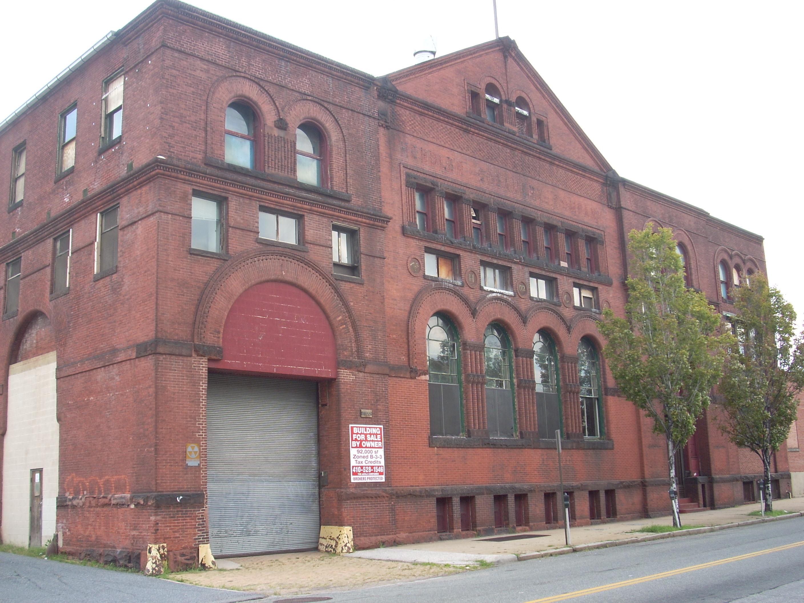 Hendler Creamery, 1100 E. Baltimore St., Baltimore City, Maryland